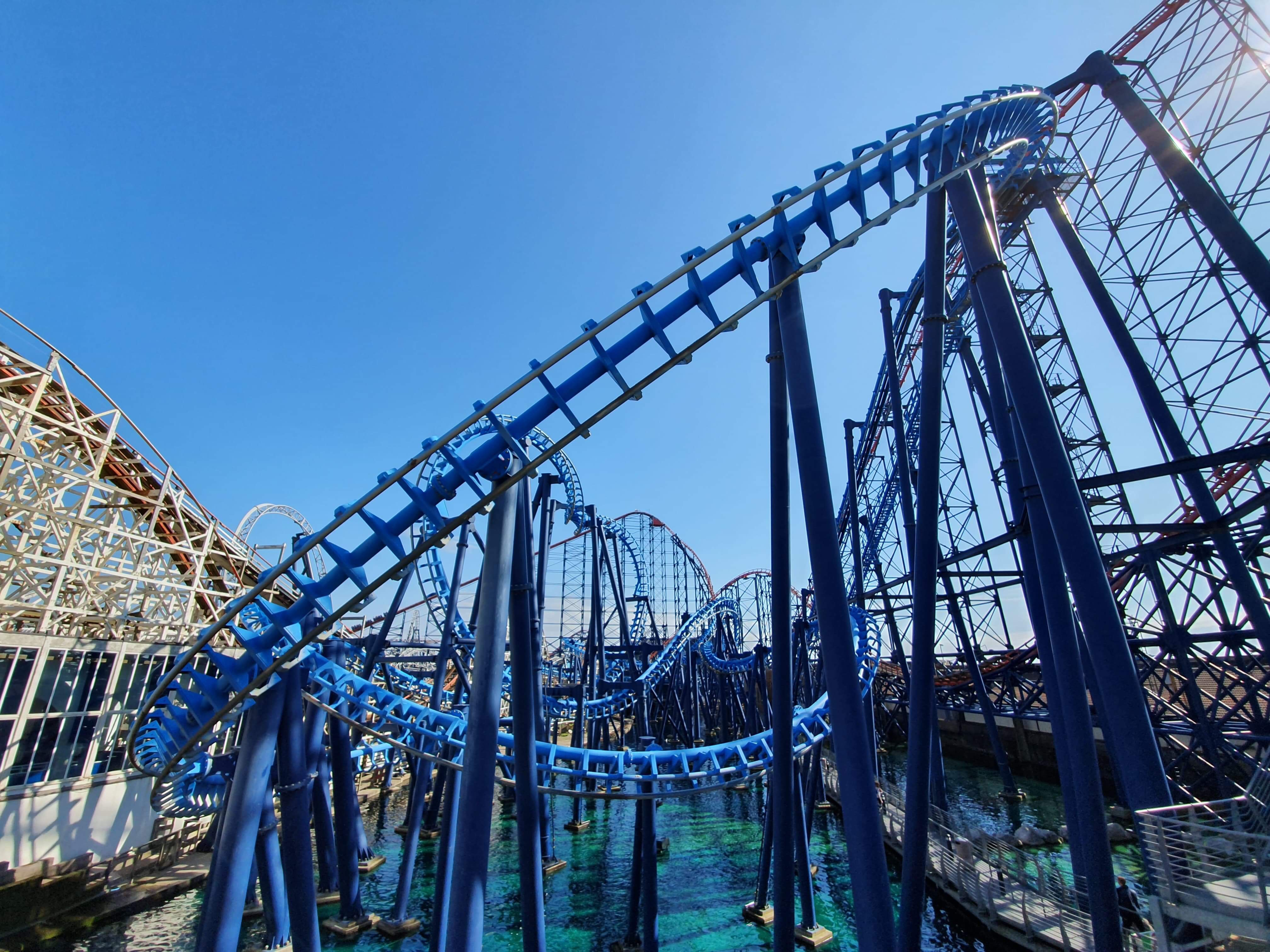 Infusion roller coaster at Blackpool Pleasure Beach